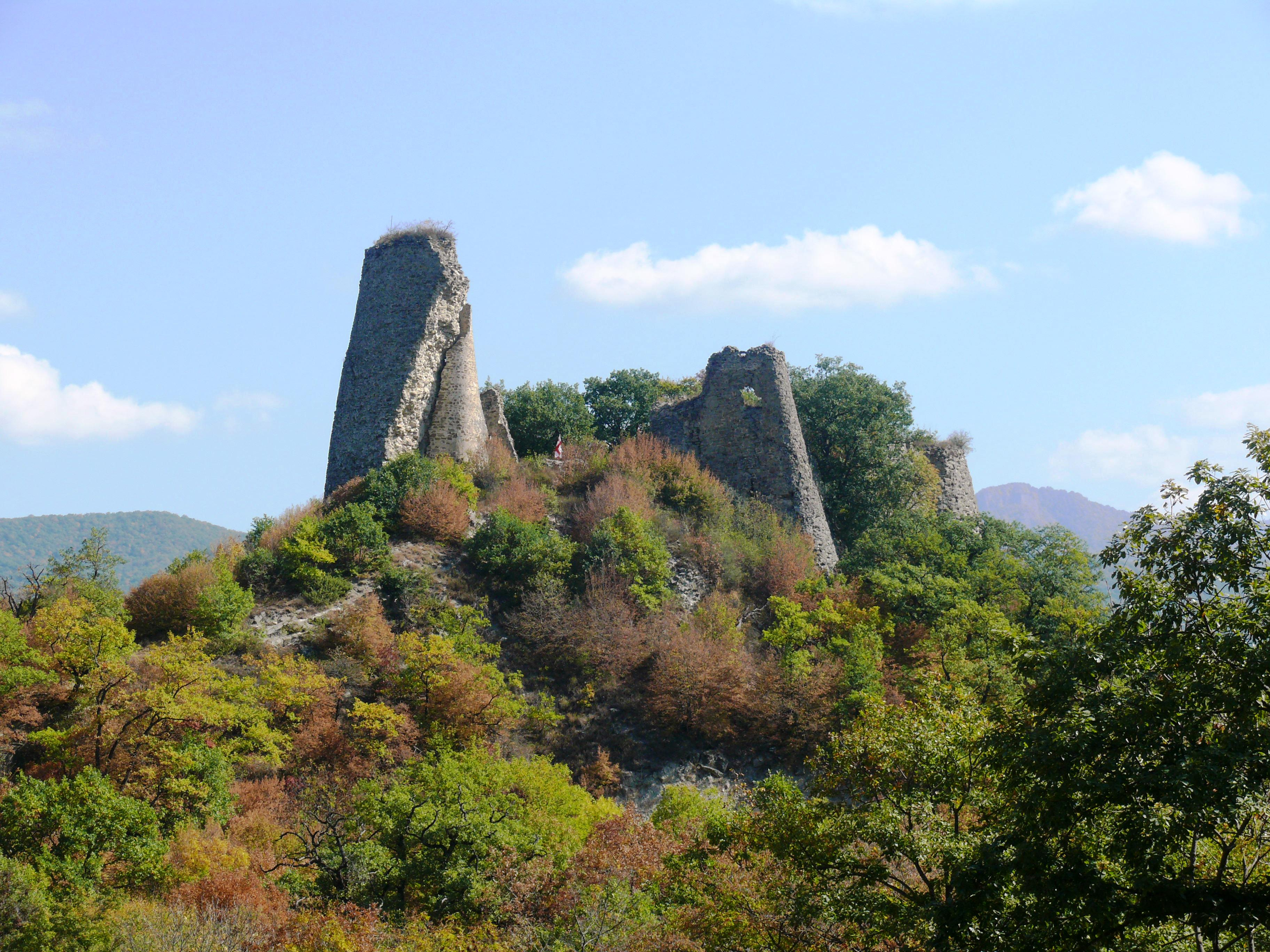 Udjarma castle